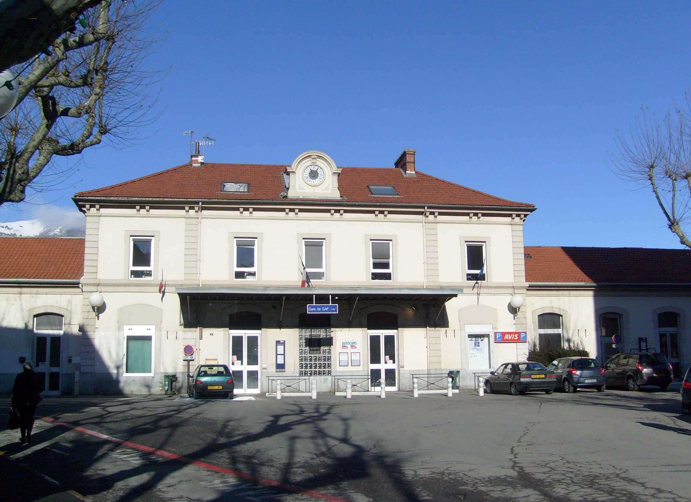 Gap station( Hautes-Alpes, France)